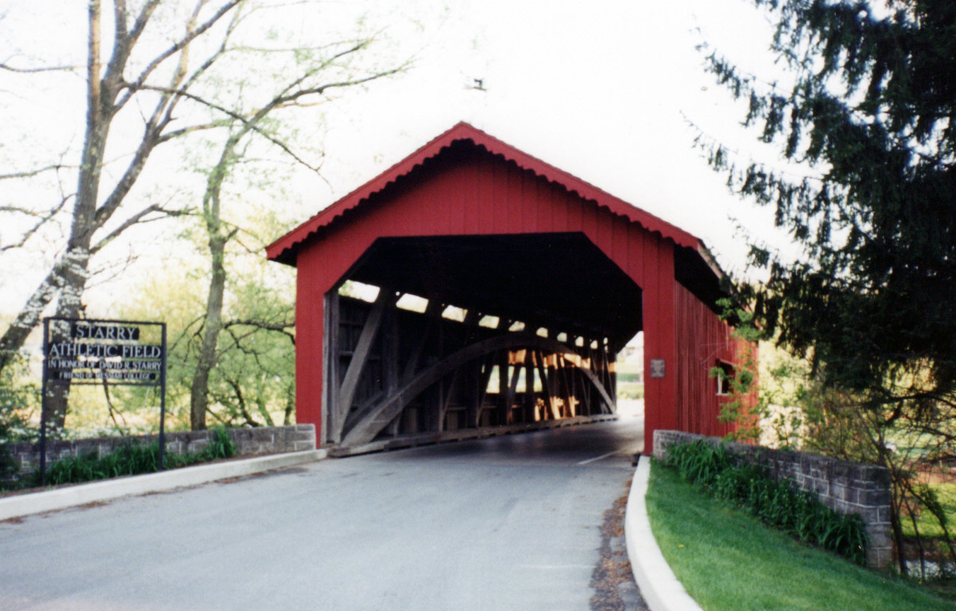 Bowmansdale Stoner covered bridge on the campus of Messiah College, Grantham, Pennsylvania, United States.